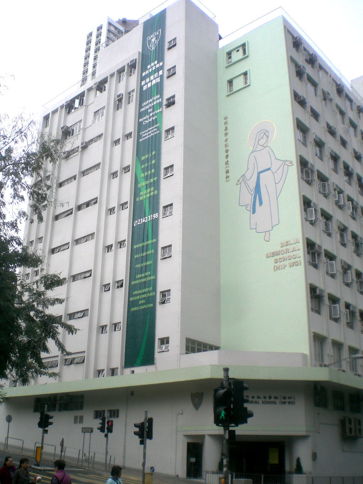 地利亞修女紀念學校 (利瑪竇), Delia Memorial School Matteo Ricci 觀塘 協和街 223, Hip Wo Street, Kwun Tong, Hong Kong